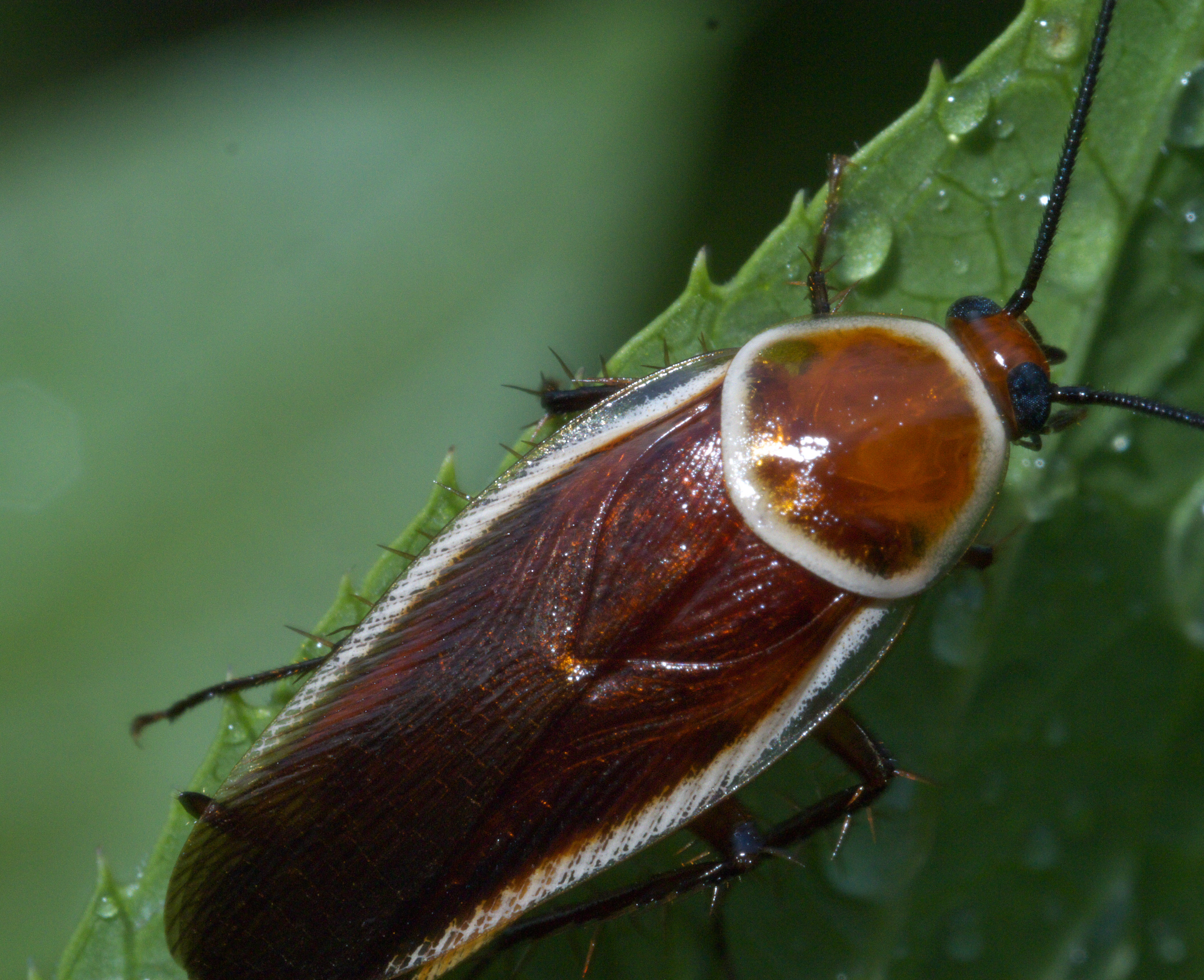 Pseudomops septentrionalis, Pale Bordered Field Cockroach, Size: 14 mm, ID Confidence: 87